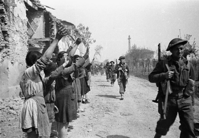 Italians from the village of Barbiano welcome NZ infantry. New Zealand. Department of Internal Affairs. War History Branch :Photographs relating to World War 1914-1918, World War 1939-1945, occupation of Japan, Korean War, and Malayan Emergency. Ref: DA-09170-F. Alexander Turnbull Library, Wellington, New Zealand. George Kaye was an official photographer of the NZ Military Forces and thus copyright in this work rests or rested with the Crown. The Crown has released this work under the CC-BY 3.0 unported license. Refer to source website for details: This work's copyright expired 50 years after creation in New Zealand and probably also in countries following the rule of the shorter term.